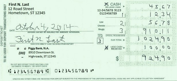 Example modern deposit slip, filled in.